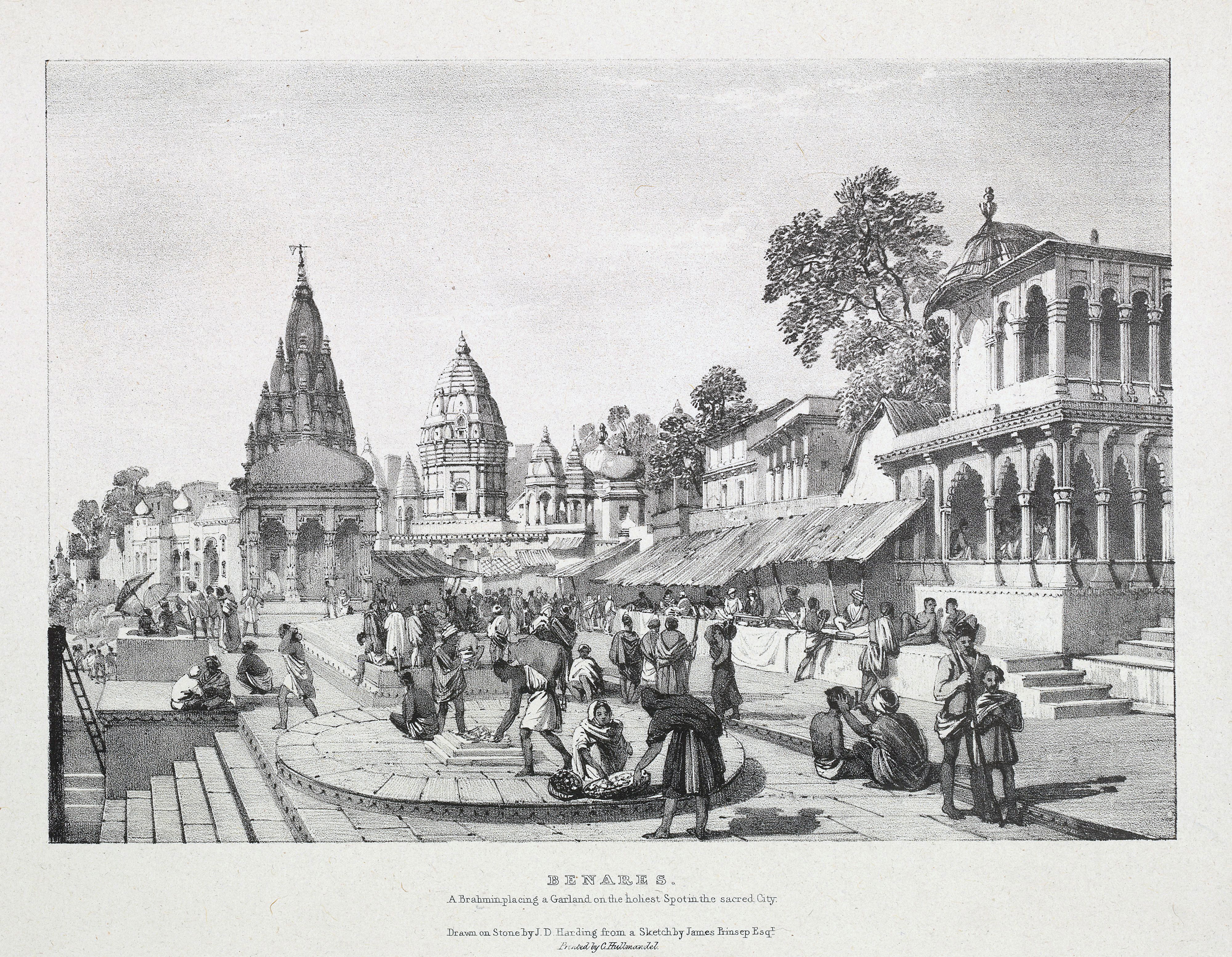 "Benares, A Brahmin placing a garland on the holiest spot in the sacred city" - (aka: Varanasi) Lithograph, by the Anglo-Indian scholar and mint assay master James Prinsep. Courtesy of the British Library.